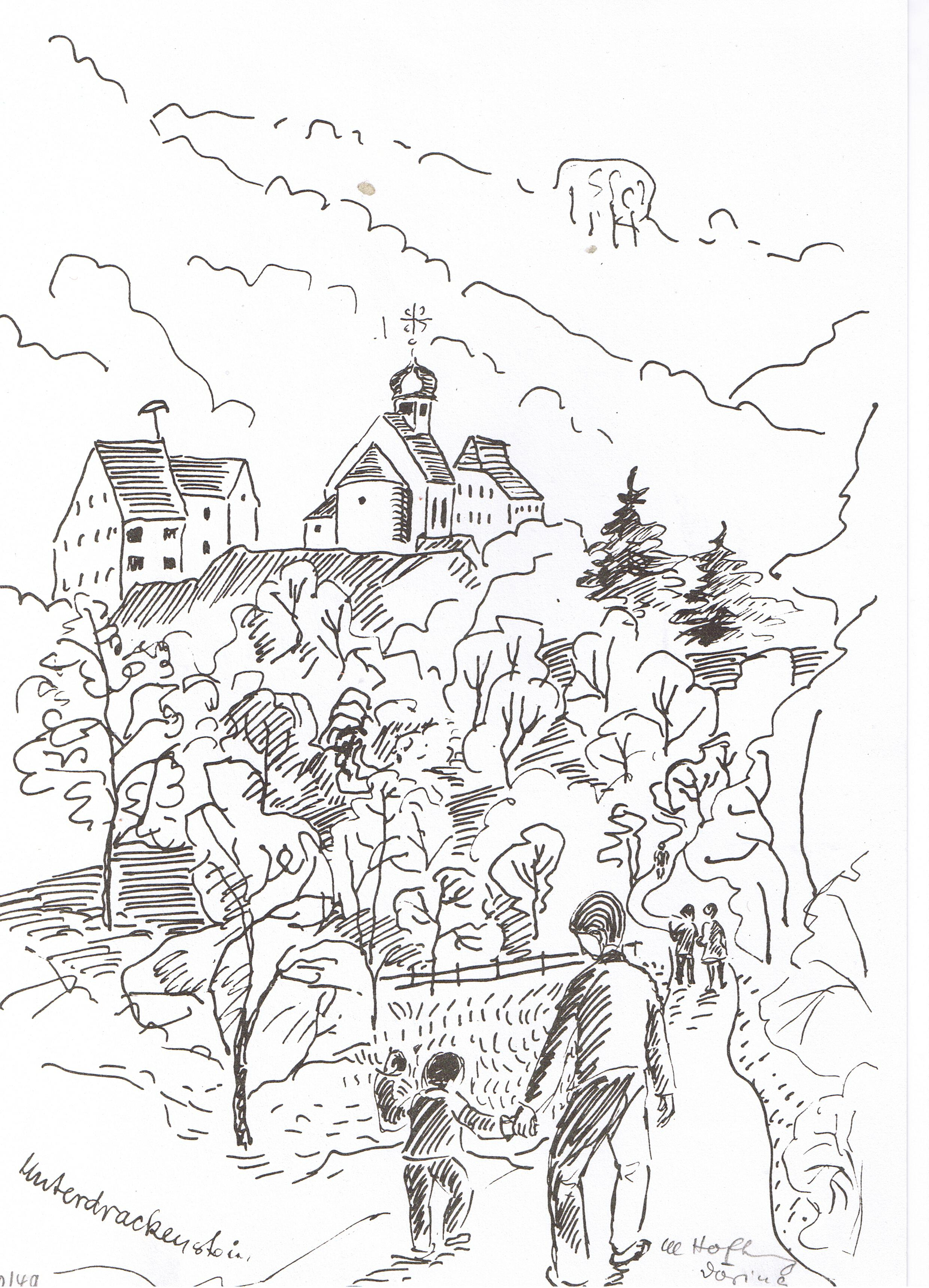 Unterdrackenstein, ink drawing, 20 x 30 cm